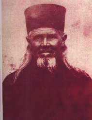 Russo-Macedonian monk Theodort (? - 1939)